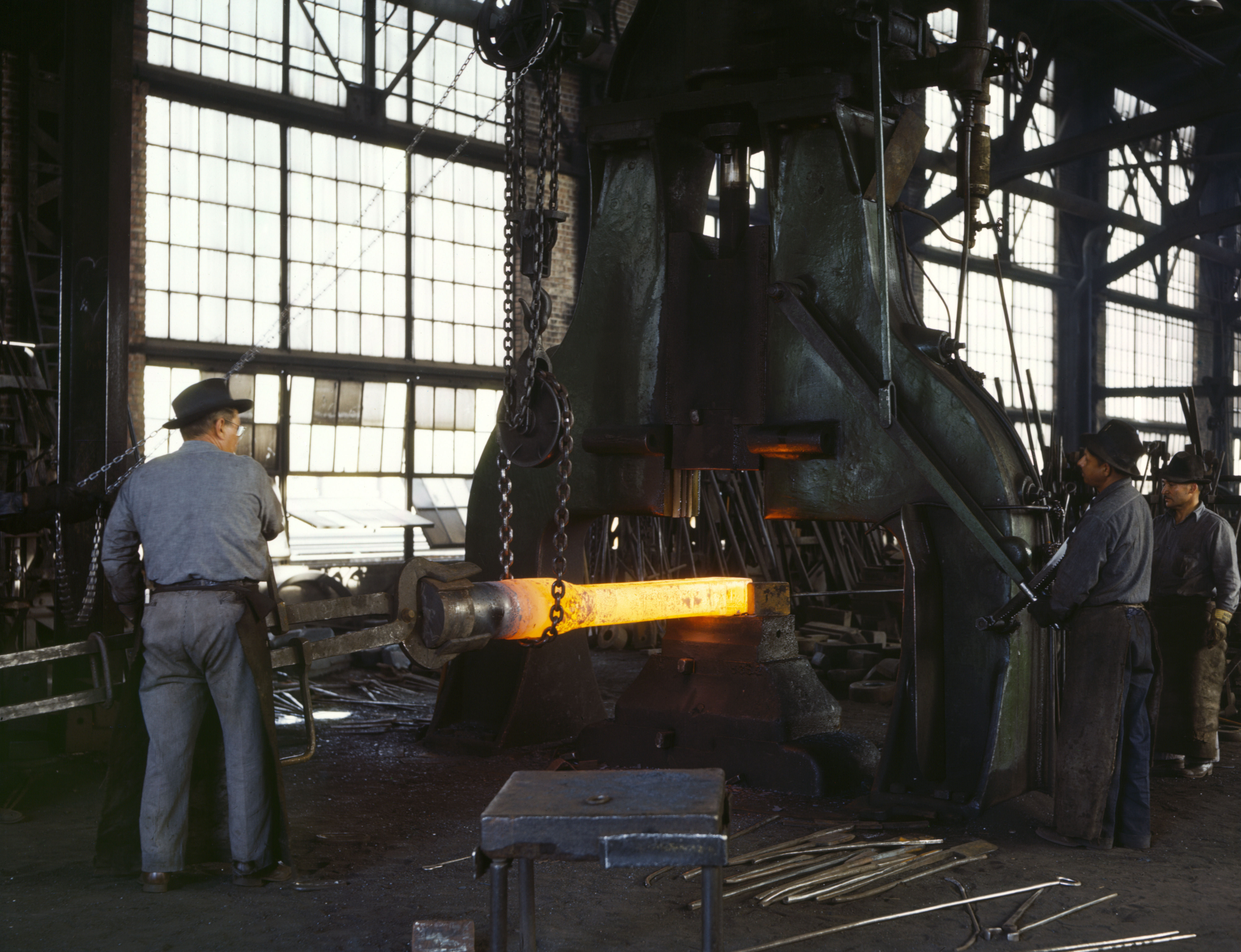 Hammering out a draw bar on the steam drop hammer in the blacksmith shop, Santa Fe R.R. shops, Albuquerque, New Mexico